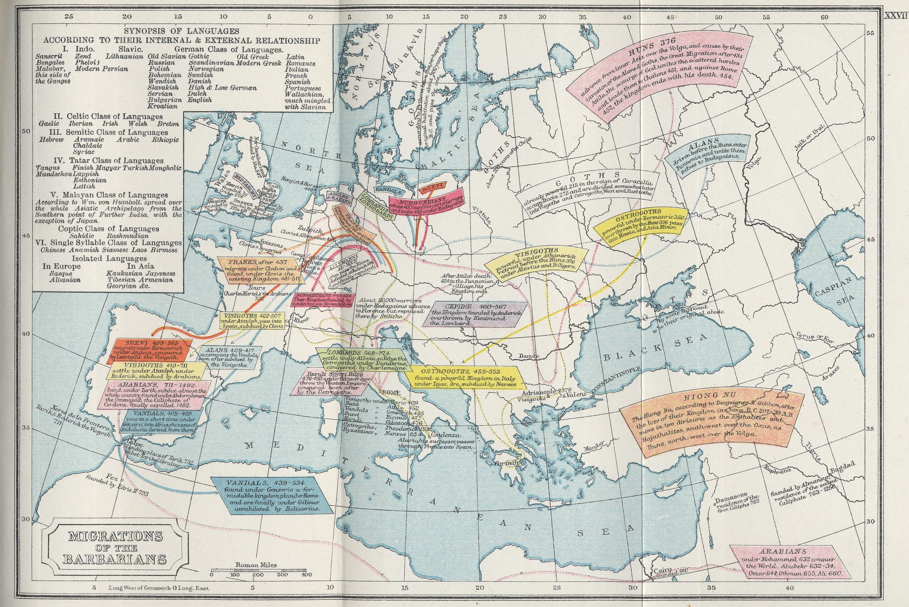 The Atlas of Ancient and Classical Geography by Samuel Butler